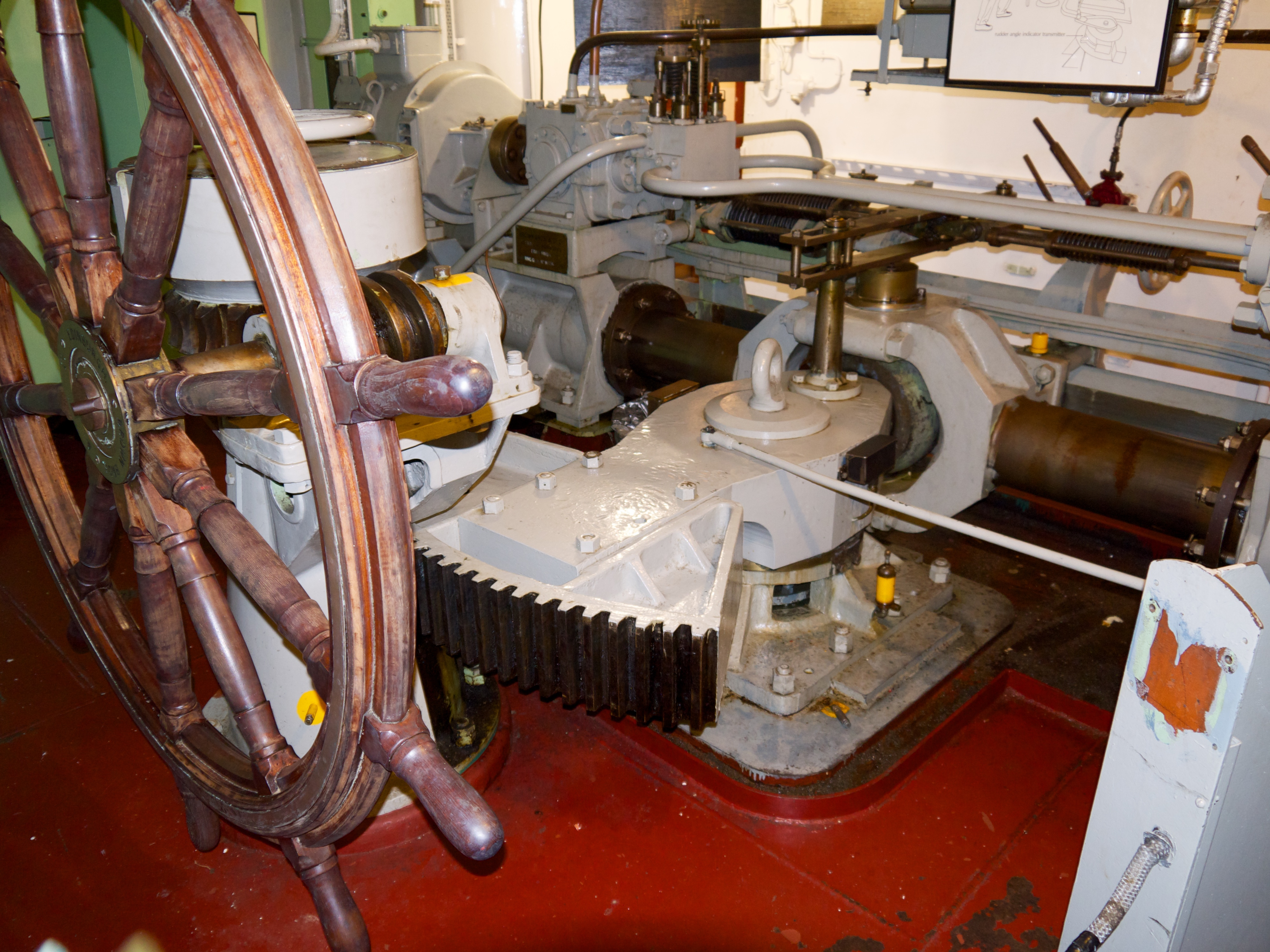 CCGS Alexander Henry, museum ship in Kingston, Ontario.